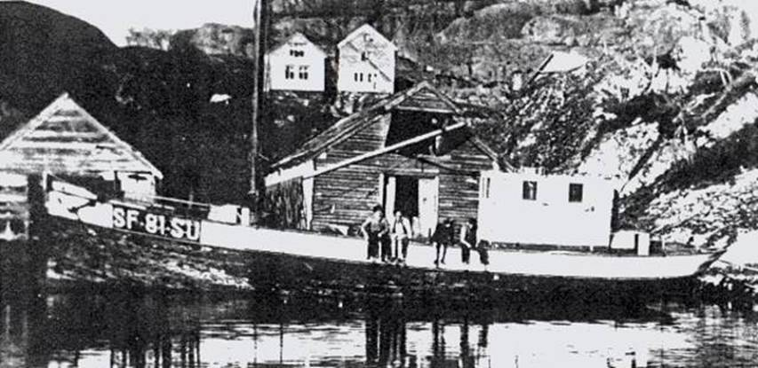 Stolsgutt, SF 81 SU.